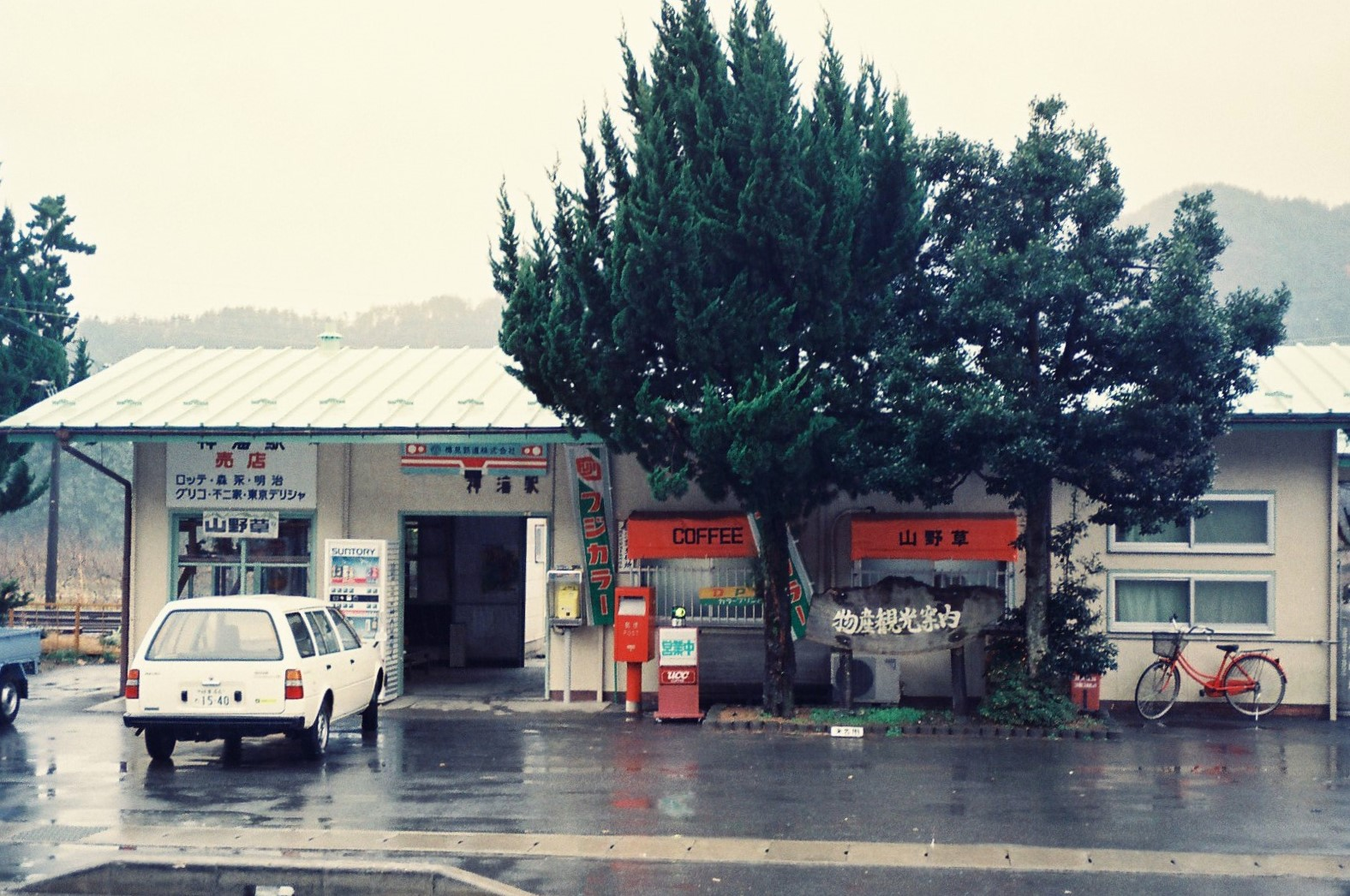 Koumi Station on the Tarumi Railway